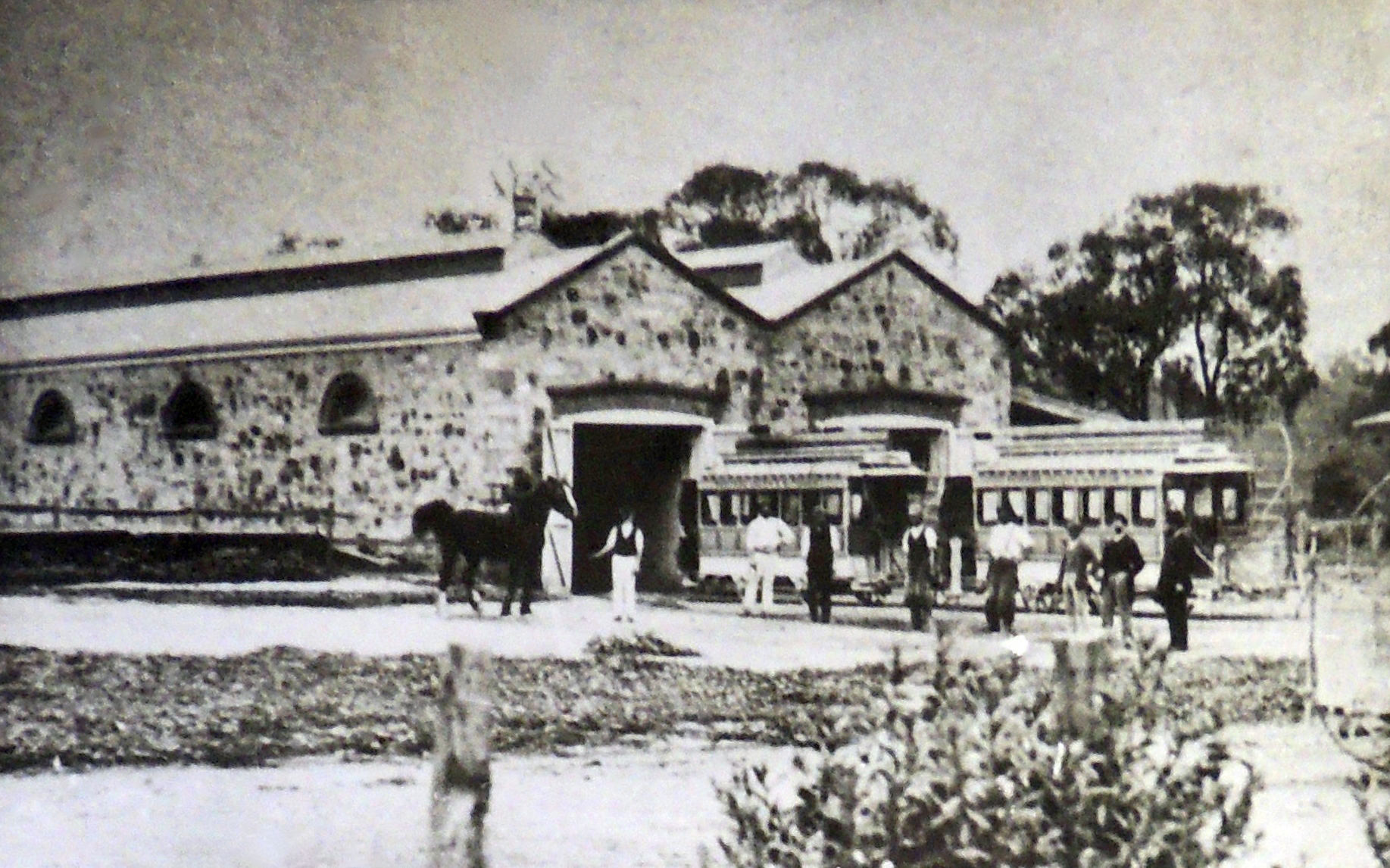 A large, long stone building with two bays. In front of one are two horse trams; they are double-decked, with longitudinal seating on the upper level. A horse and 8 men are in front. The photograph was titled "Horse tram depot, Mitcham, 1879". (The first horse tram service in Adelaide was in 1878.)